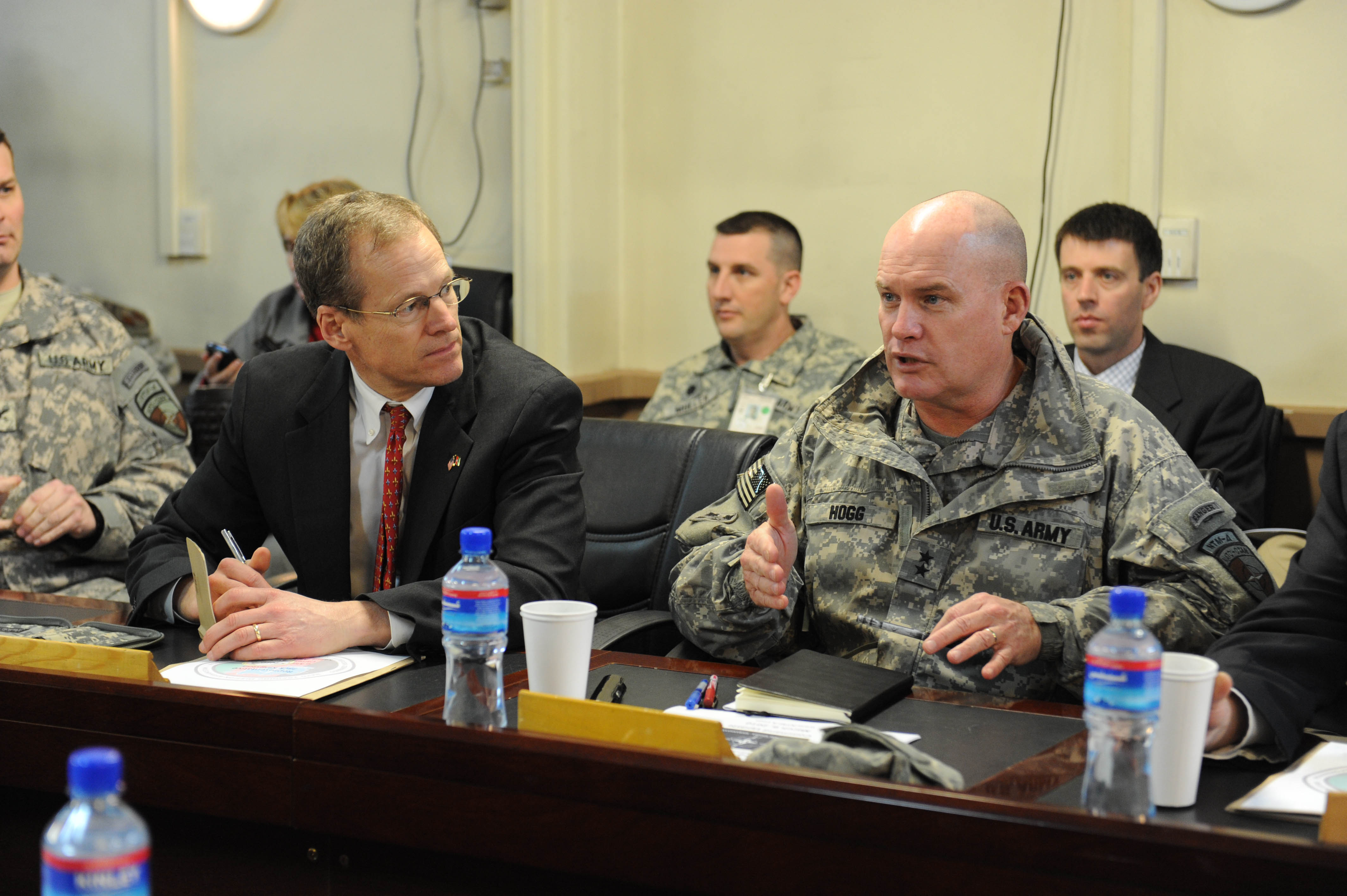 100306-F-5561D-003 Kabul,Afghanistan-- Maj.Gen. David Hogg, Combined Security Transition Command-Afghanistan (CTSC-A) deputy commander, speaks to Congressman Jack Kingston along with other representitives about future training plans for the Afghan National Army and Police Mar. 6. Members of the Congressional Delegation participated in a situation briefing on the current training conducted in Afghanistan under CTSC-A. (U.S. Air Force photo/Senior Airman Matt Davis)